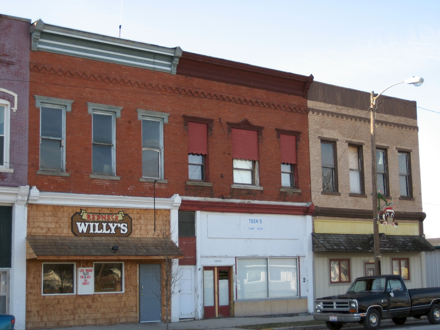 Justin Zollars